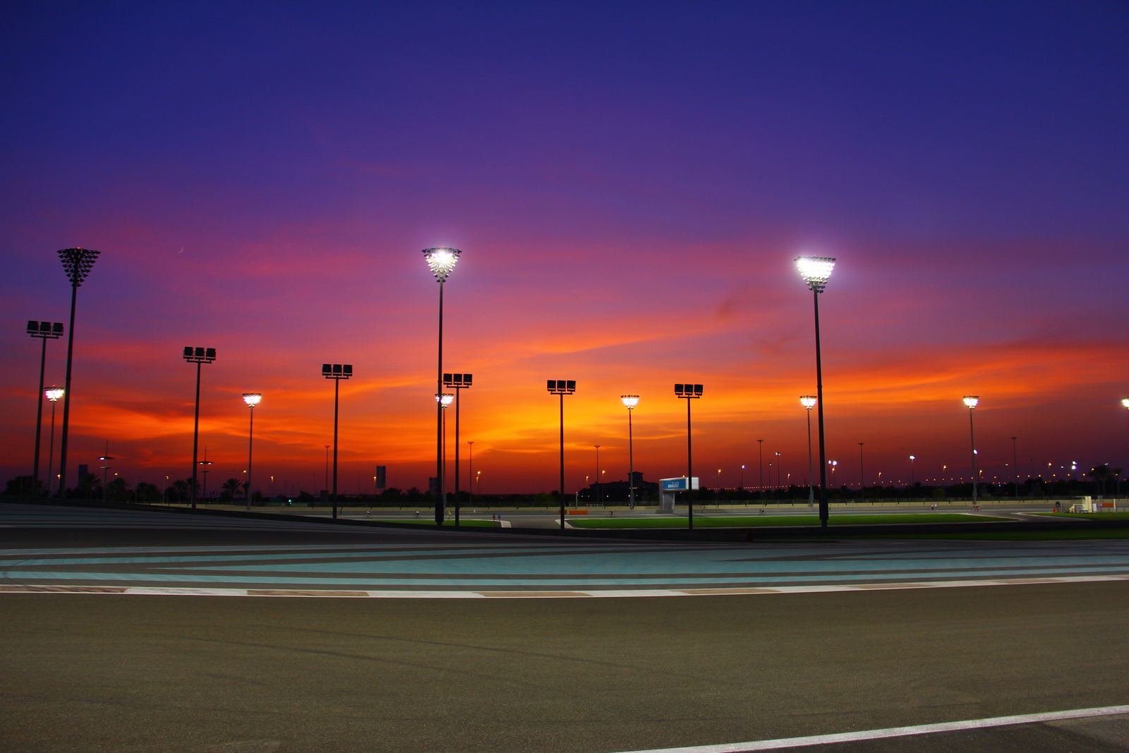 Sunset at Yas Marina circuit - Abu Dhabi. Cycling at Yas Marina circuit on every Sunday.